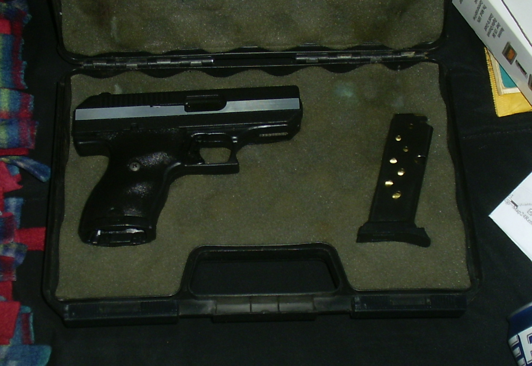 A .380 ACP Hi Point Semiautomatic blowback action pistol. 9 round maximum capacity with standard magazine.